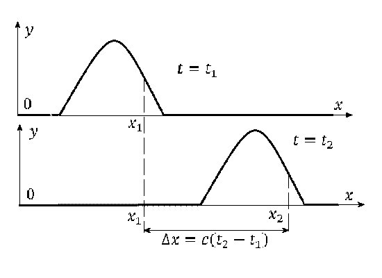 The points at string are considered on different moments of time for any disturbances to illustrate phase velocity value.